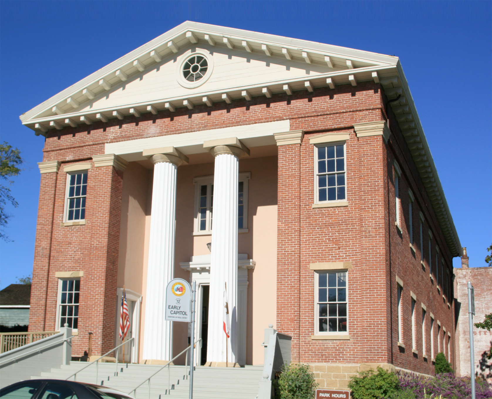 Third capitol of California, Benicia